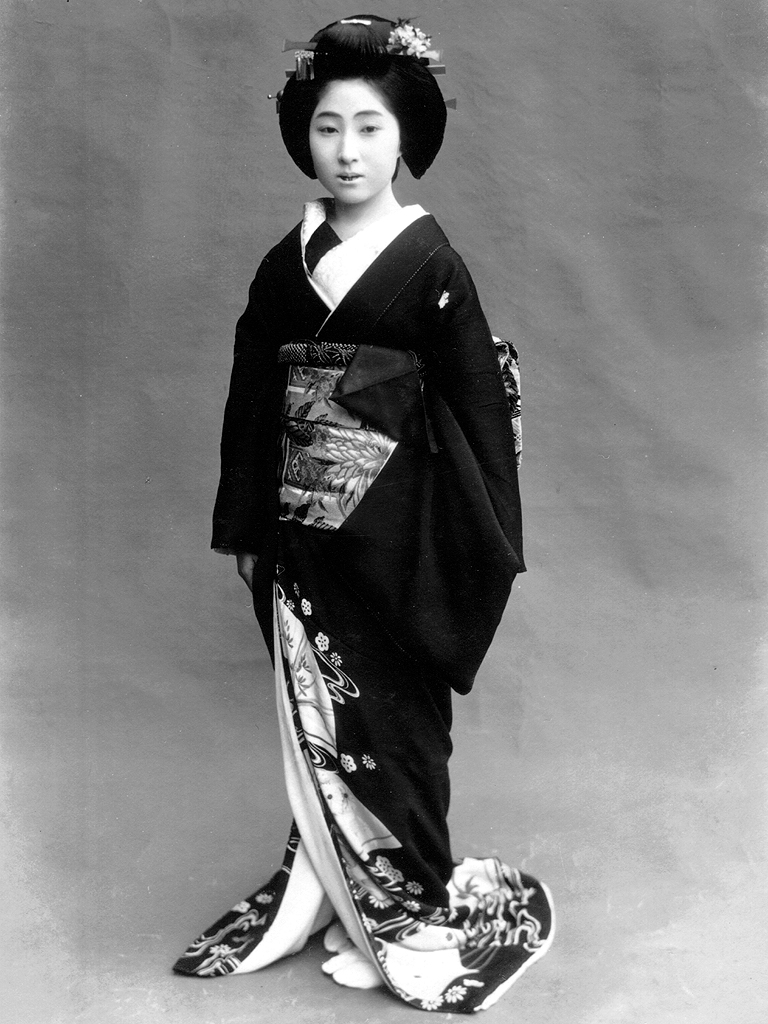 A geisha dressed for performing tea ceremony, the outfit resembles that of a maiko. The turned collar (red showing) marks her as a geisha dressed for tea ceremony.